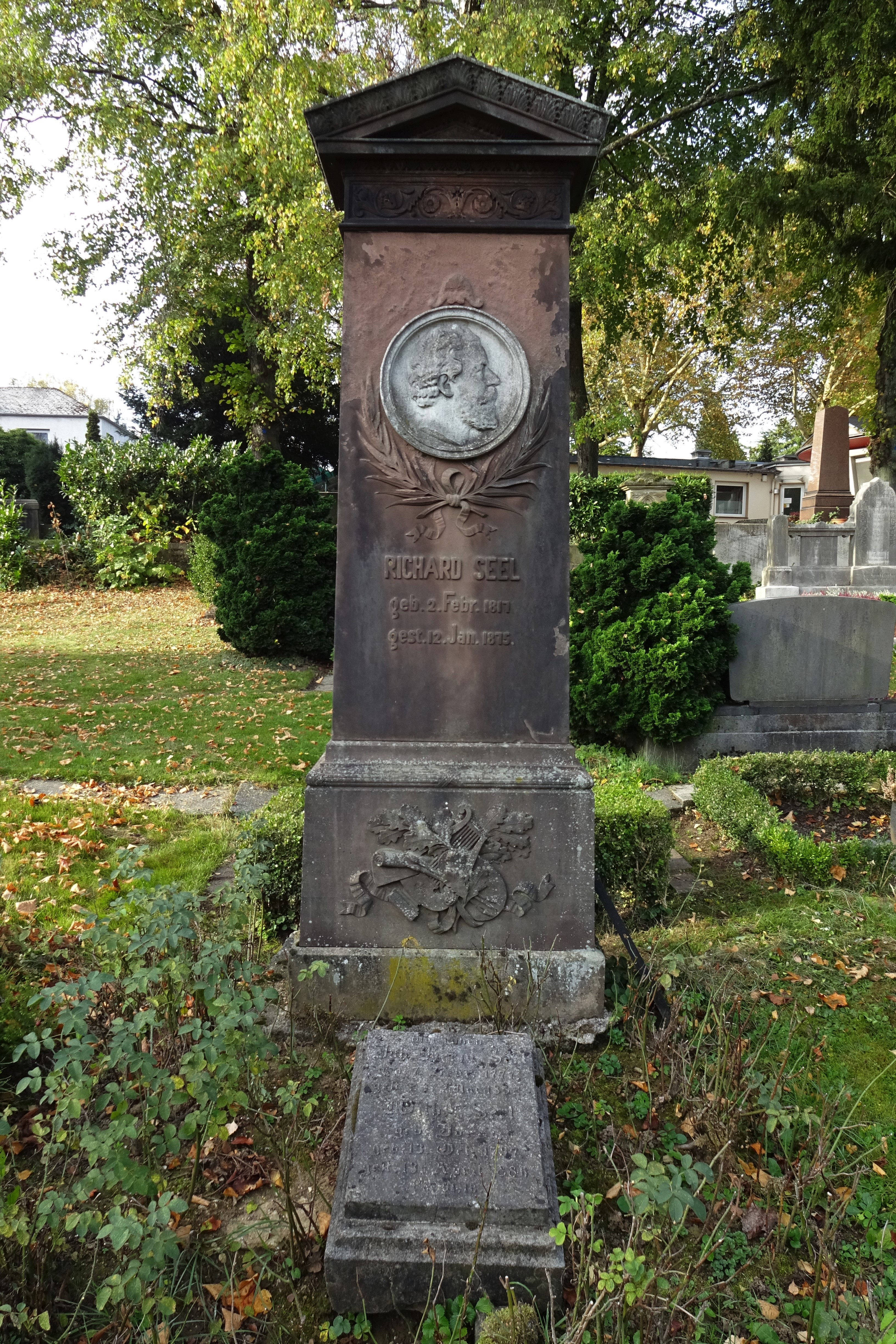 Grave of German artist Johann Richard Seel in Reformierter Friedhof Hochstraße in Wuppertal. Portrait by Bernhard Afinger